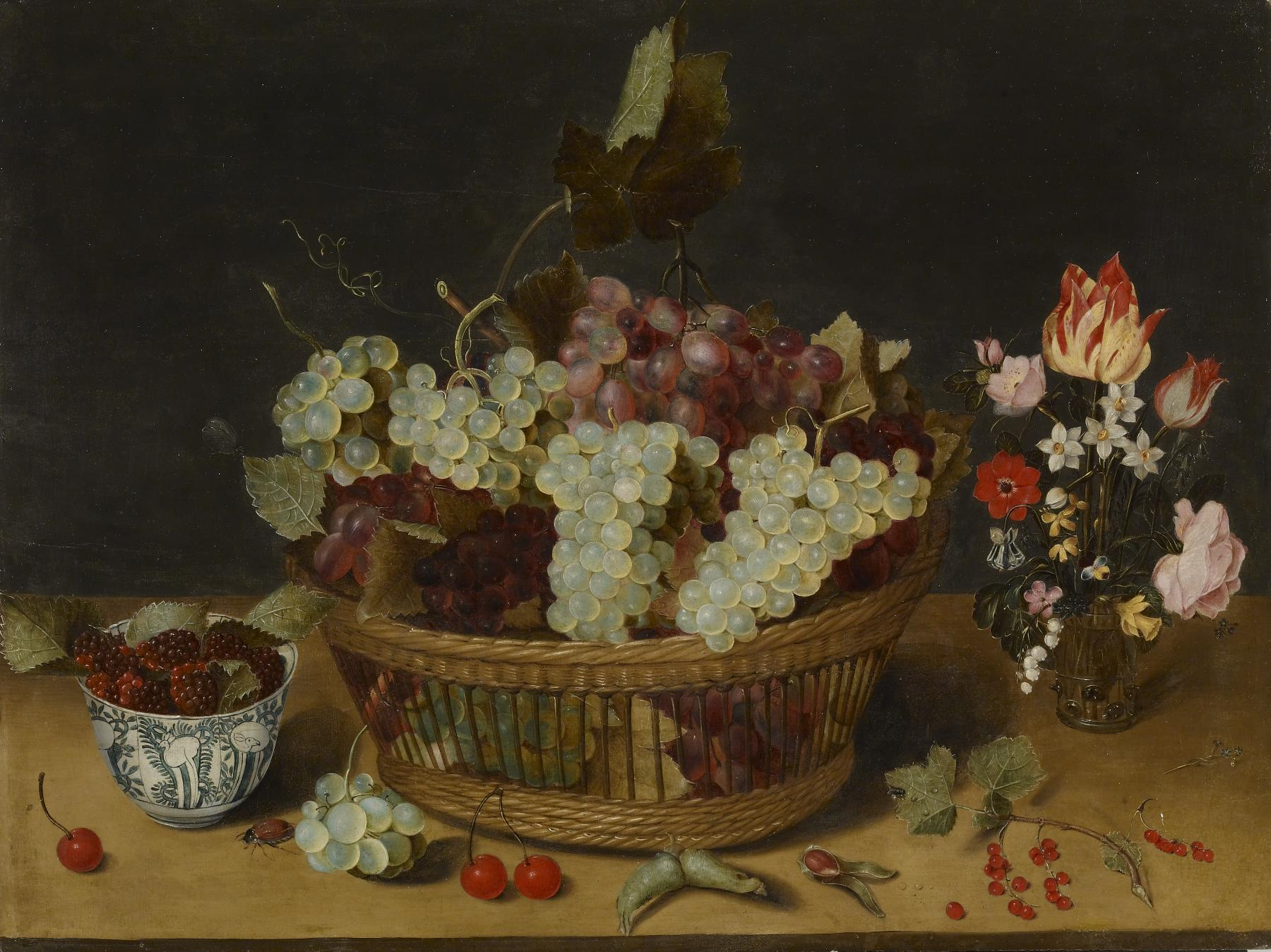 Soreau, the son of an Antwerp painter in Frankfurt, specialized in "table-top still lifes," featuring fruits, flowers, and insects depicted in ways that appeal to the senses. For example, the sheen on the grapes and color of the mulberries suggest their flavor, while the delicacy of the Chinese porcelain bowl, paired with the glass beaker with tulips, lilies of the valley, and other flowers, appeals to sight and touch. Porcelains made during the reign of the Chinese emperor Wan Li (1572-1619)-the same type bowl as on the bracket above-were appreciated as marvels of Chinese ingenuity. However, the bulbs that produced the tulips at the right were more valuable. Introduced from Turkey a few decades earlier, tulips, especially striped ones, could, in these years, cost as much a farm.